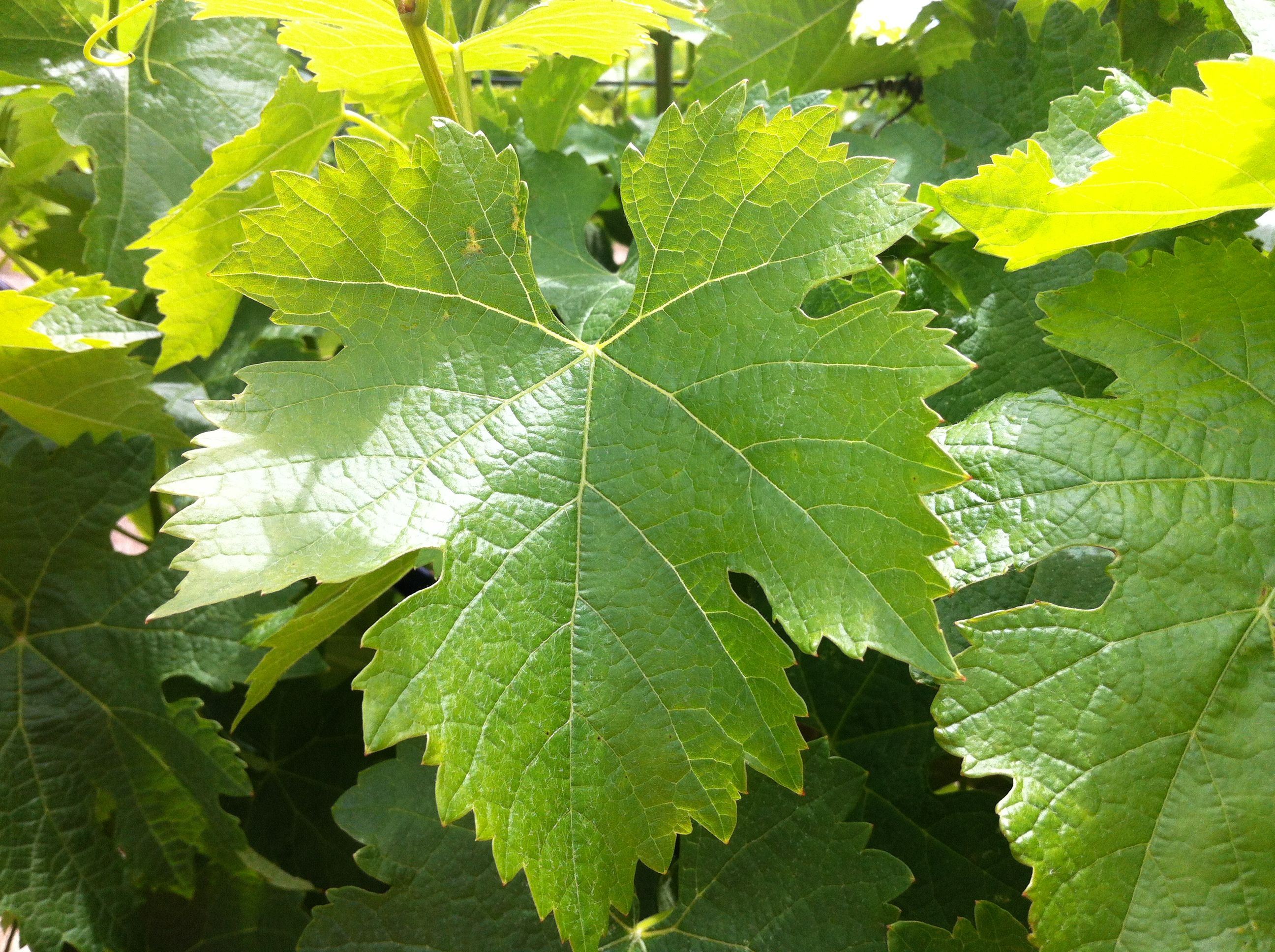 Close up of Tempranillo leaf